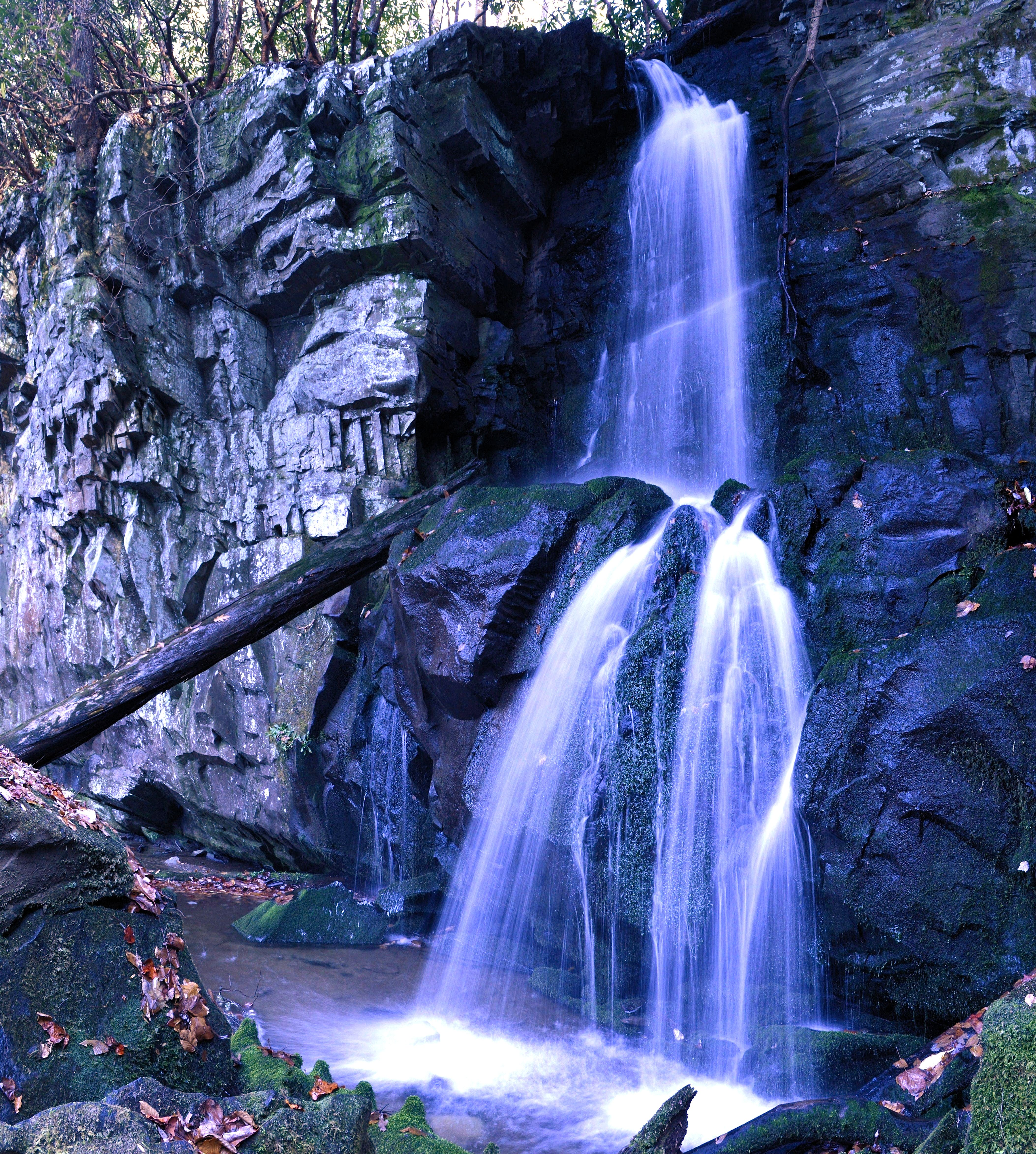 Baskins Creek Falls: the 40 foot, two-tiered falls is located along Baskins Creek in the Roaring Fork area of the Great Smoky Mountains National Park. A short spur trail located 1.3 miles down Baskins Creek Trail provides access.